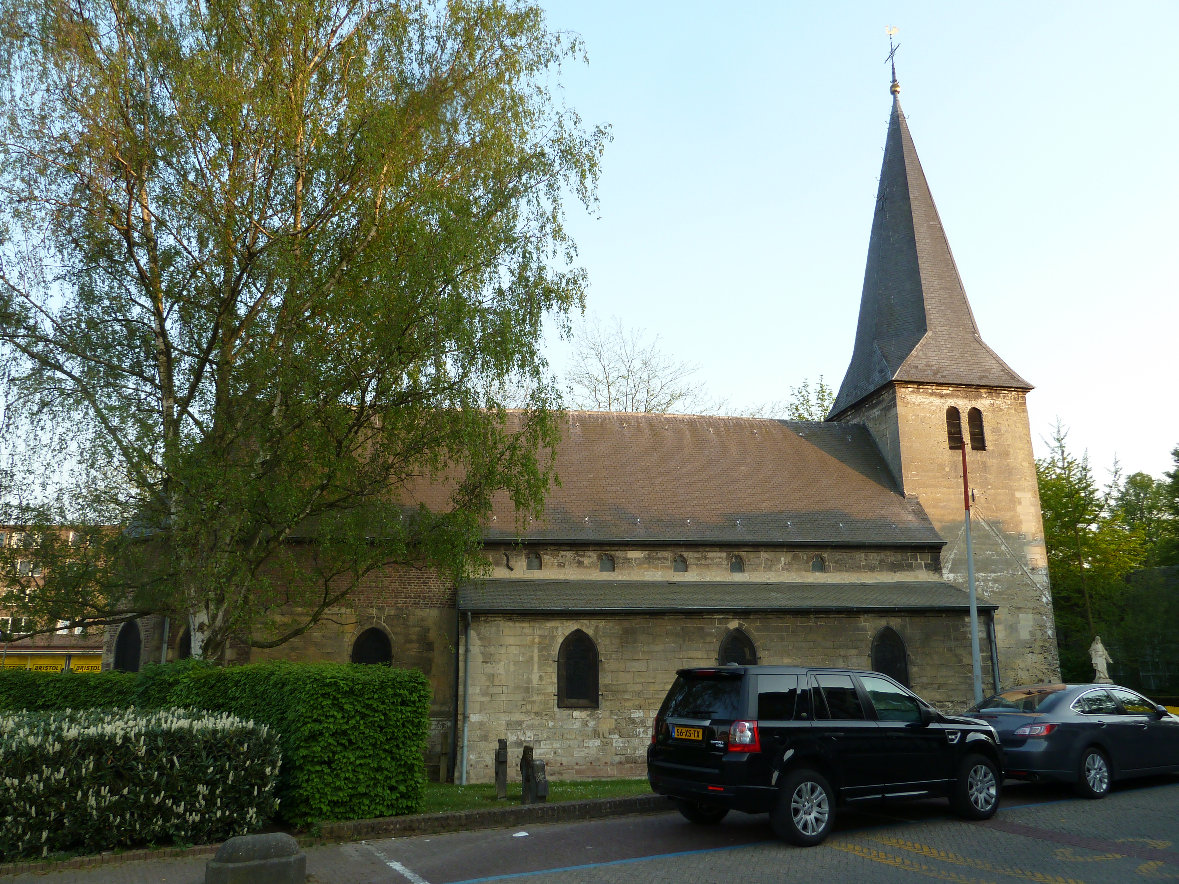 Oude kerk Hoensbroek at the Hoofdstraat, Heerlen, Limburg, the Netherlands